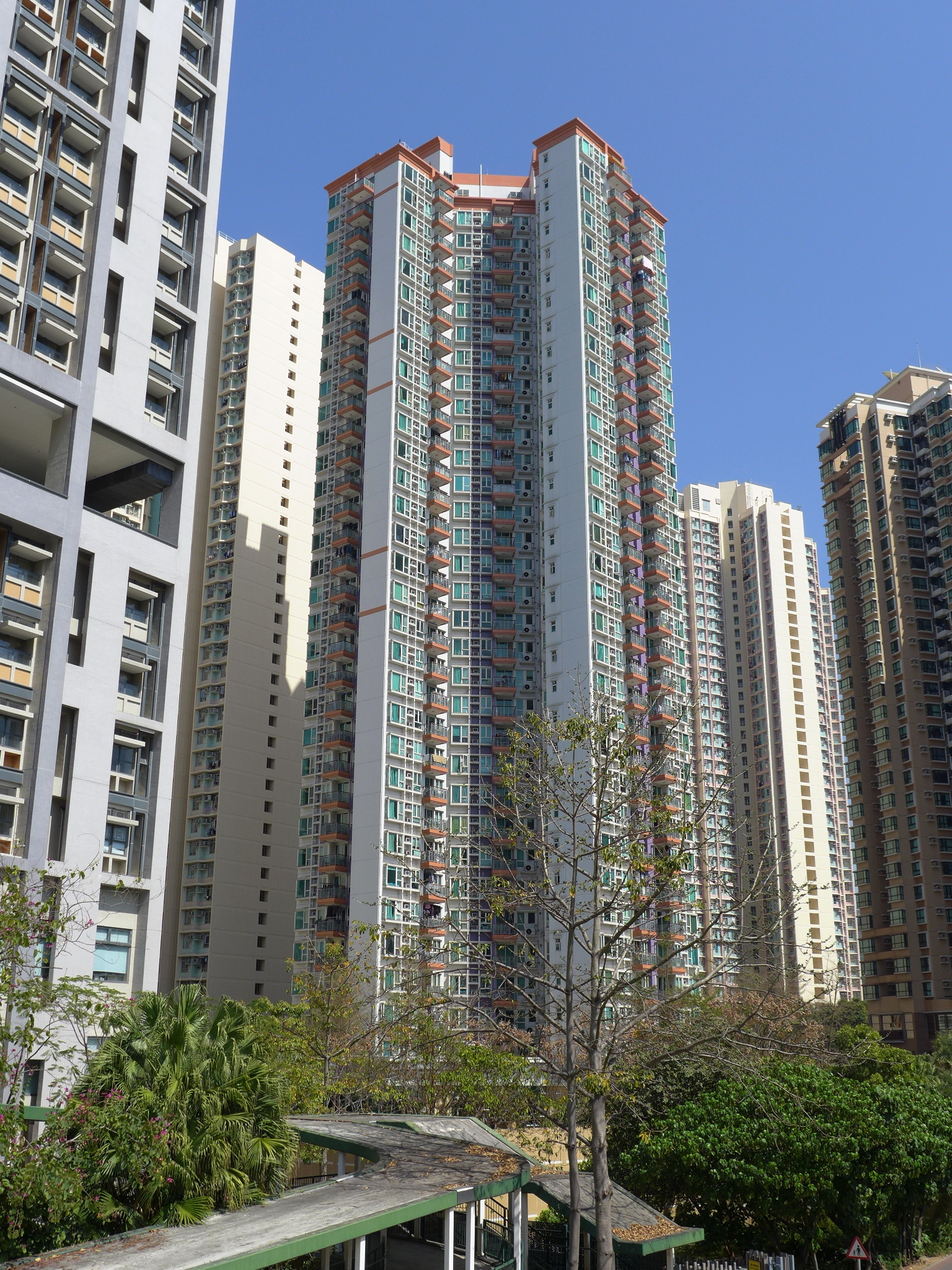 South Hillcrest